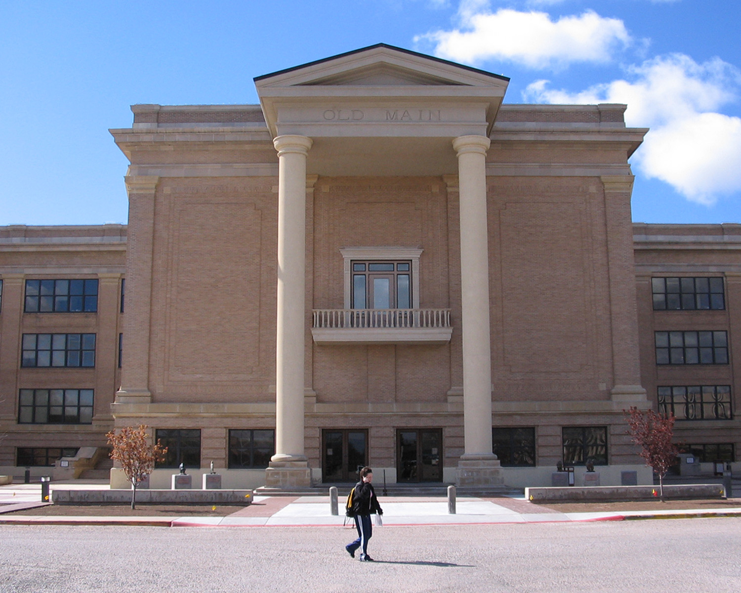 A photograph of West Texas A&M University in Canyon, Texas. The photograph was taken last year by mwah and cropped/edited it because I was a loser that didn't make the camera straight but no special effects just straighting it out. This is a transwiki. Last year, I only uploaded this photo in the English Wikipedia.